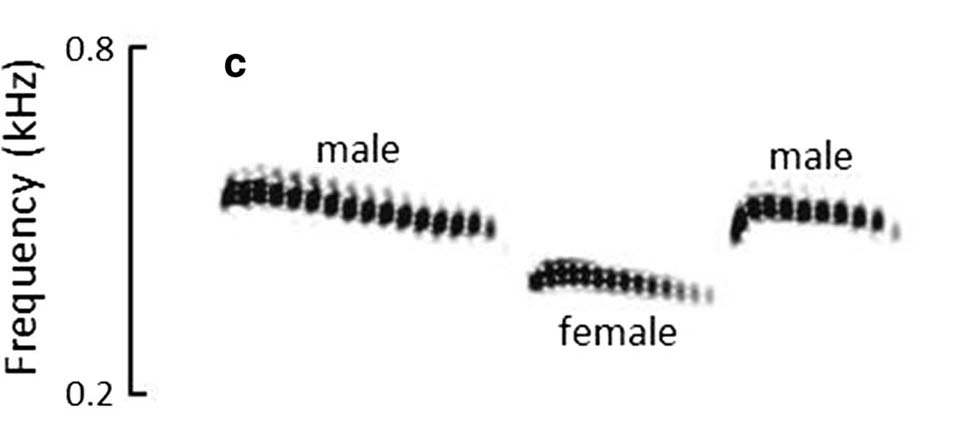 Examples of White-browed Coucal songs. Duett song of a selected pair.